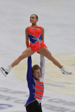 2009 Cup of China - Lubov Iliushechkina and Nodari Maisuradze